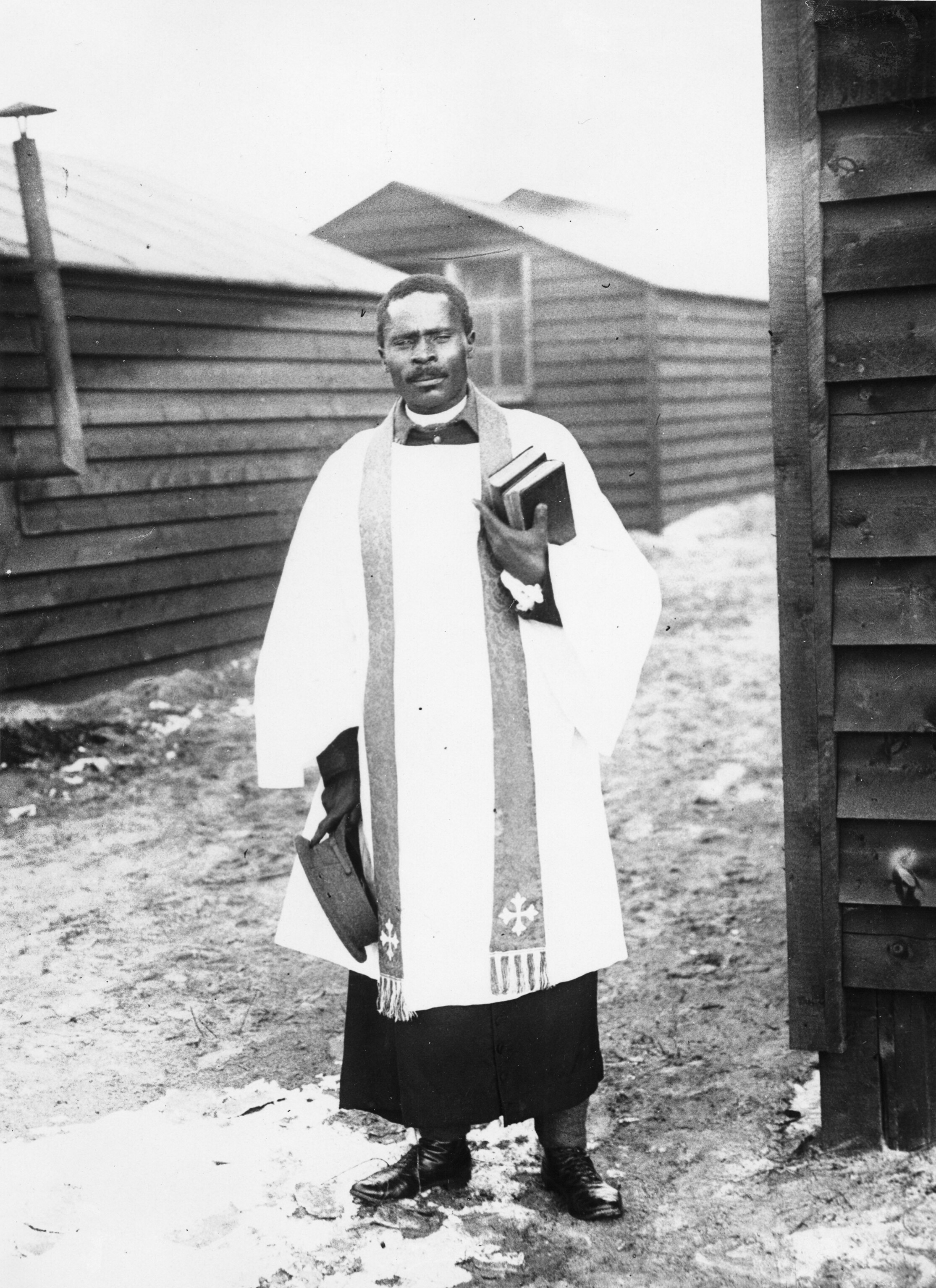 African priest, Western Front. This photograph shows a black priest, wearing what seem to be Church of England vestments over army uniform. He is standing in a camp of wooden huts. This is likely to be one of the segregated Labour Camps, probably of the South African Native Labour Contingent (SANLC). Some of these were near the ports such as Dieppe and Rouen, others were further inland such as those at Abbeville, Albert and Arras. This may be one of a series, some of which have been attributed to the photographer John Warwick Brooke. They must all have been taken after February 1917, when the Labour Camps were established on the Western Front. [Original reads: 'The native parson.']